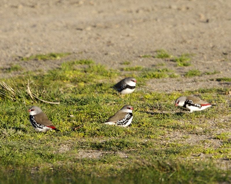 060809 diamond firetail_Q0S8255.jpg